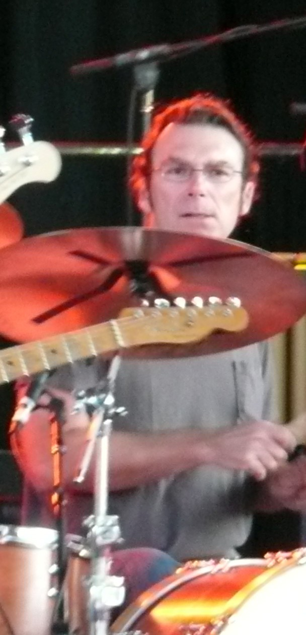 Chad Cromwell playing drums for Neil Young, in concert at the Tanzbrunnen in Cologne